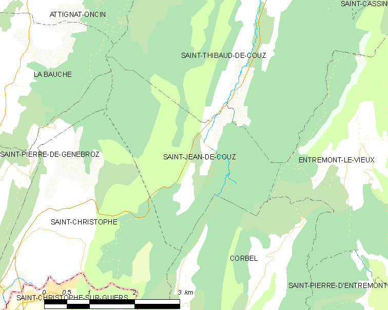 Map of French municipality